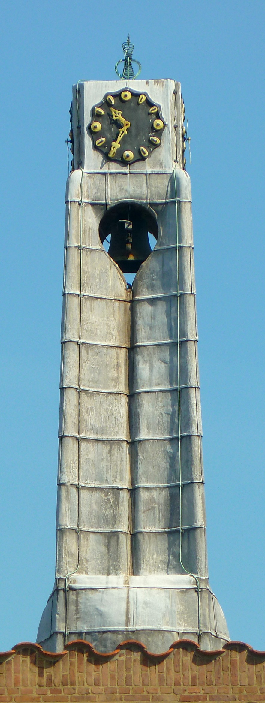 Coöperatiehof 16, Amsterdam. Bell tower of the former reading room, seen from Pieter Lodewijk Takstraat. The building is from 1927, designed by Piet (or P.L.) Kramer and was built bu housing association Bouwmaatschappij tot Verkrijging van Eigen Woningen.